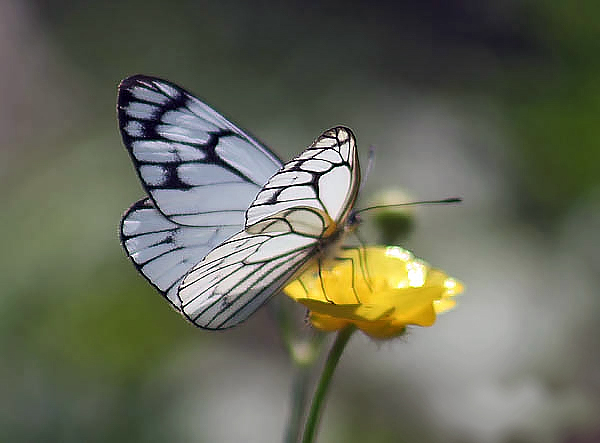 Himalayan Blackvein Aporia leucodice taken in Kullu District of Himachal Pradesh, India during Saurkundi Pass Trek.